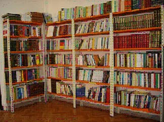 Centre d'Etudes et Recherches Humaines et Sociales d'Oujda